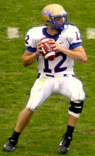 Quarterback Paul Smith drops back into the pocket looking to pass during the 2007 Tulsa-UCF football game.